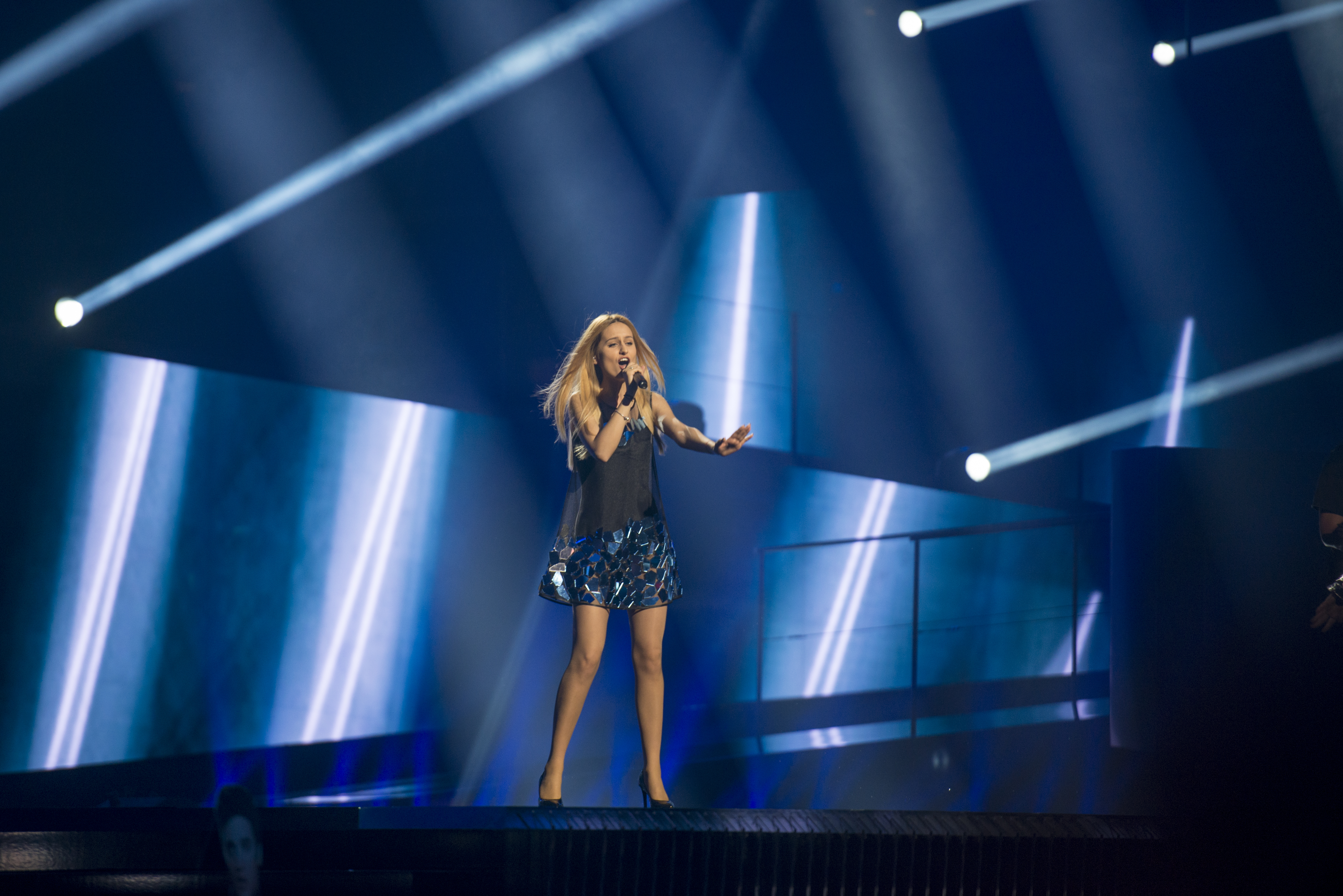 Lidia Isac representing Moldova with the song "Falling Stars" during a rehearsal before the first semi final of the Eurovision Song Contest 2016 in Stockholm. (Help translate this text)